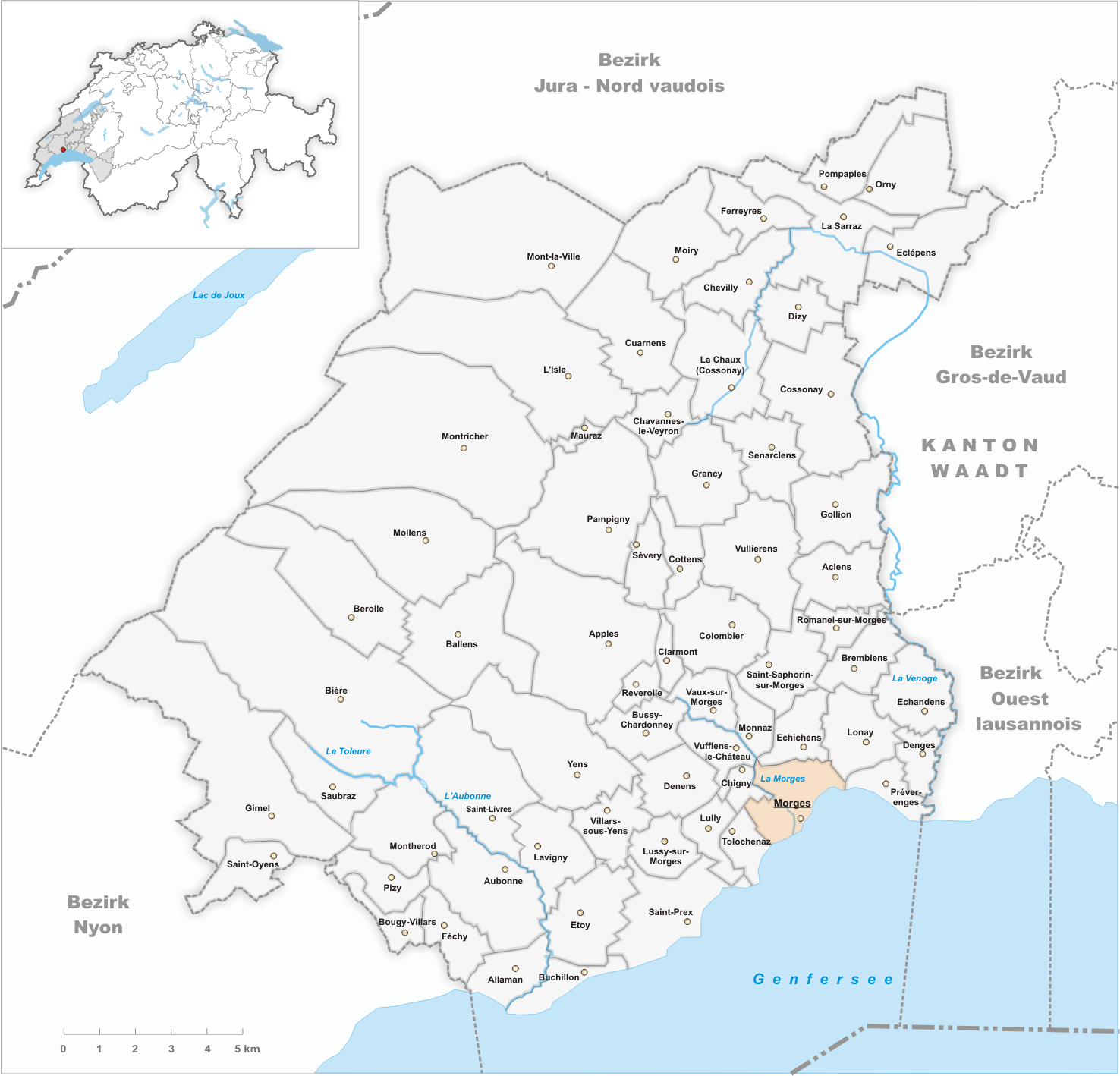 Municipality Morges